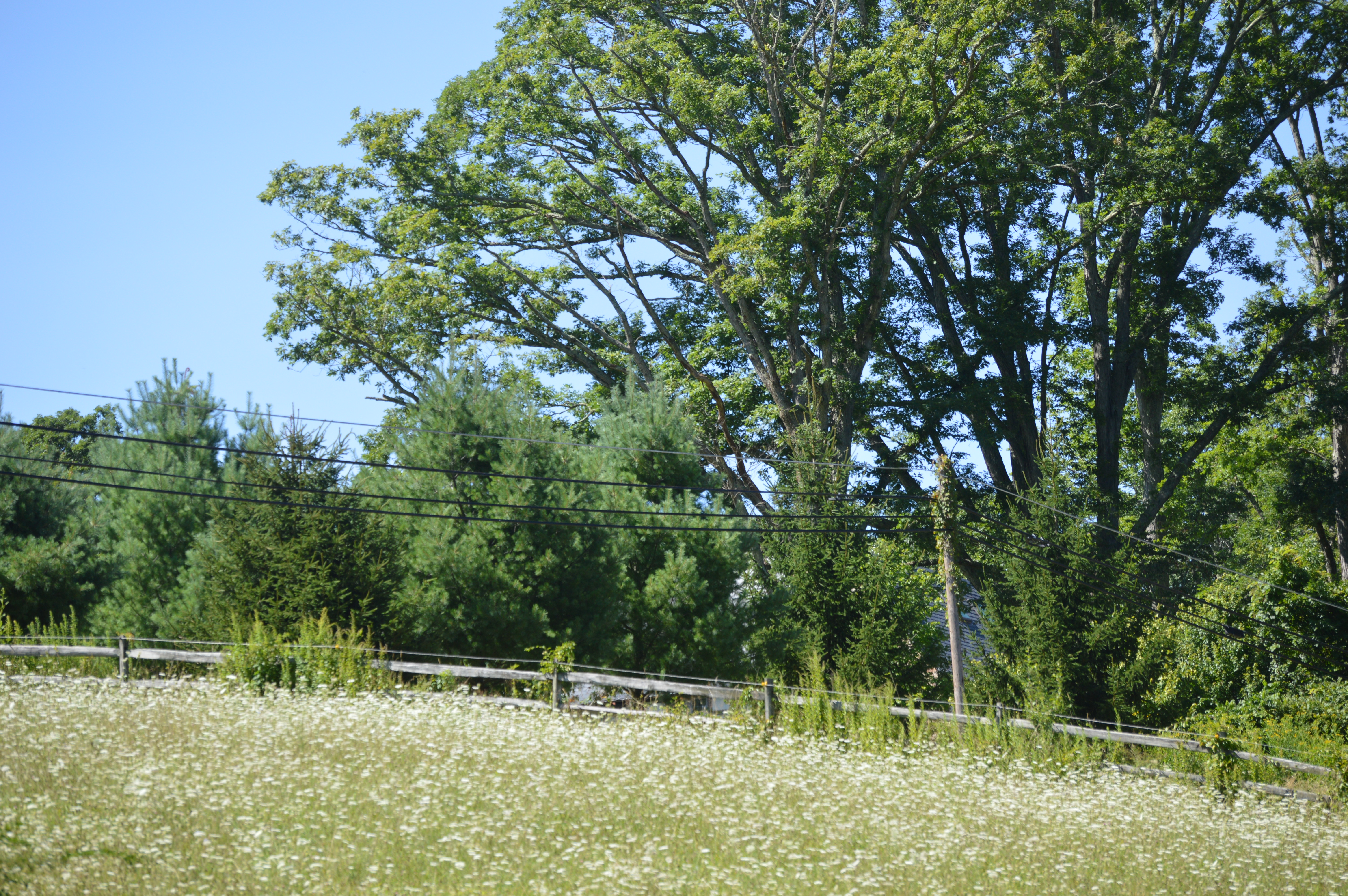 Roadside view of The Yard, located off U.S. Route 220 at Hot Springs in Bath County, Virginia, United States. Built in 1925, it is listed on the National Register of Historic Places.